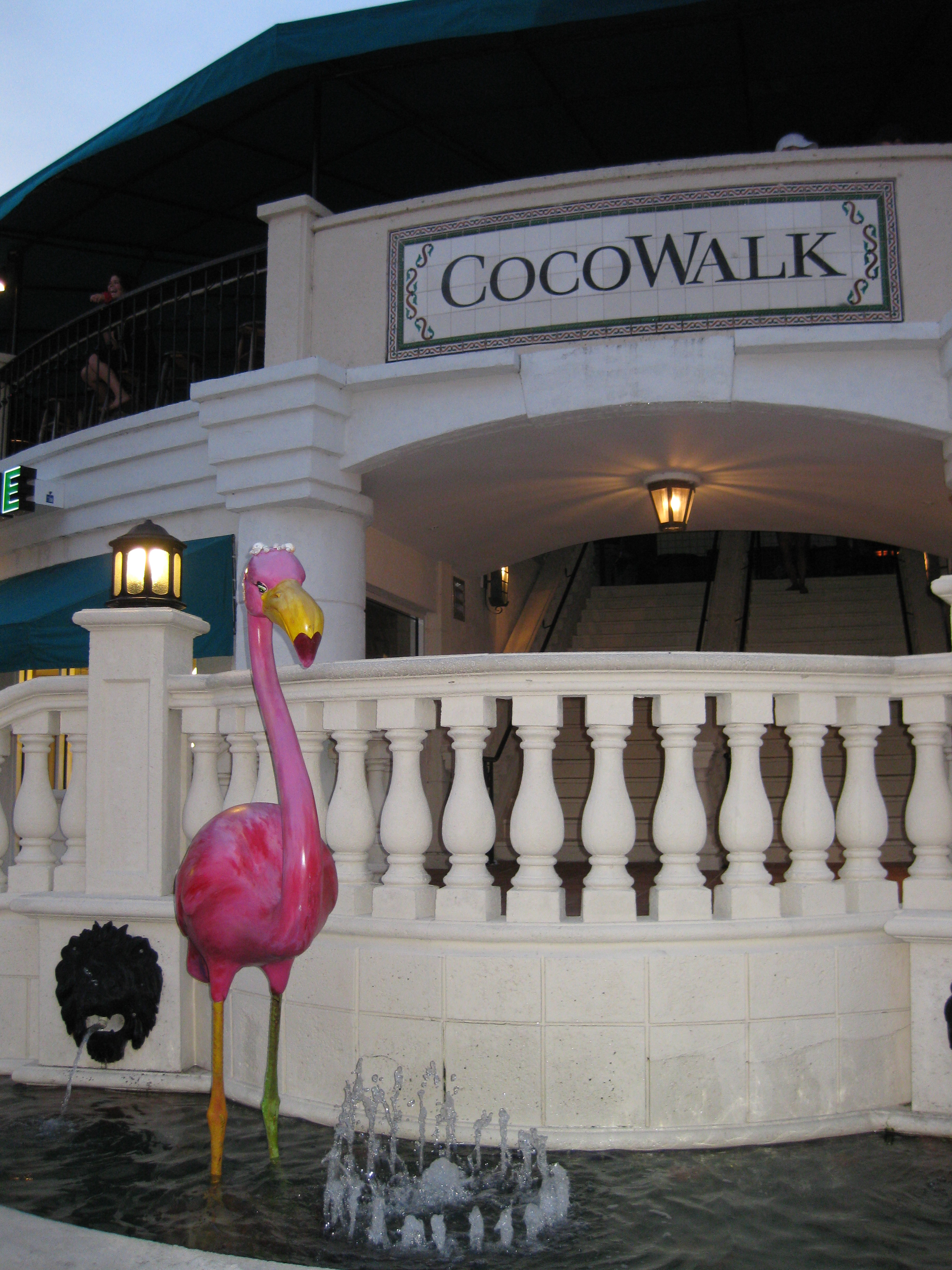 CocoWalk Outdoor Mall, Cocoanut Grove, Florida.